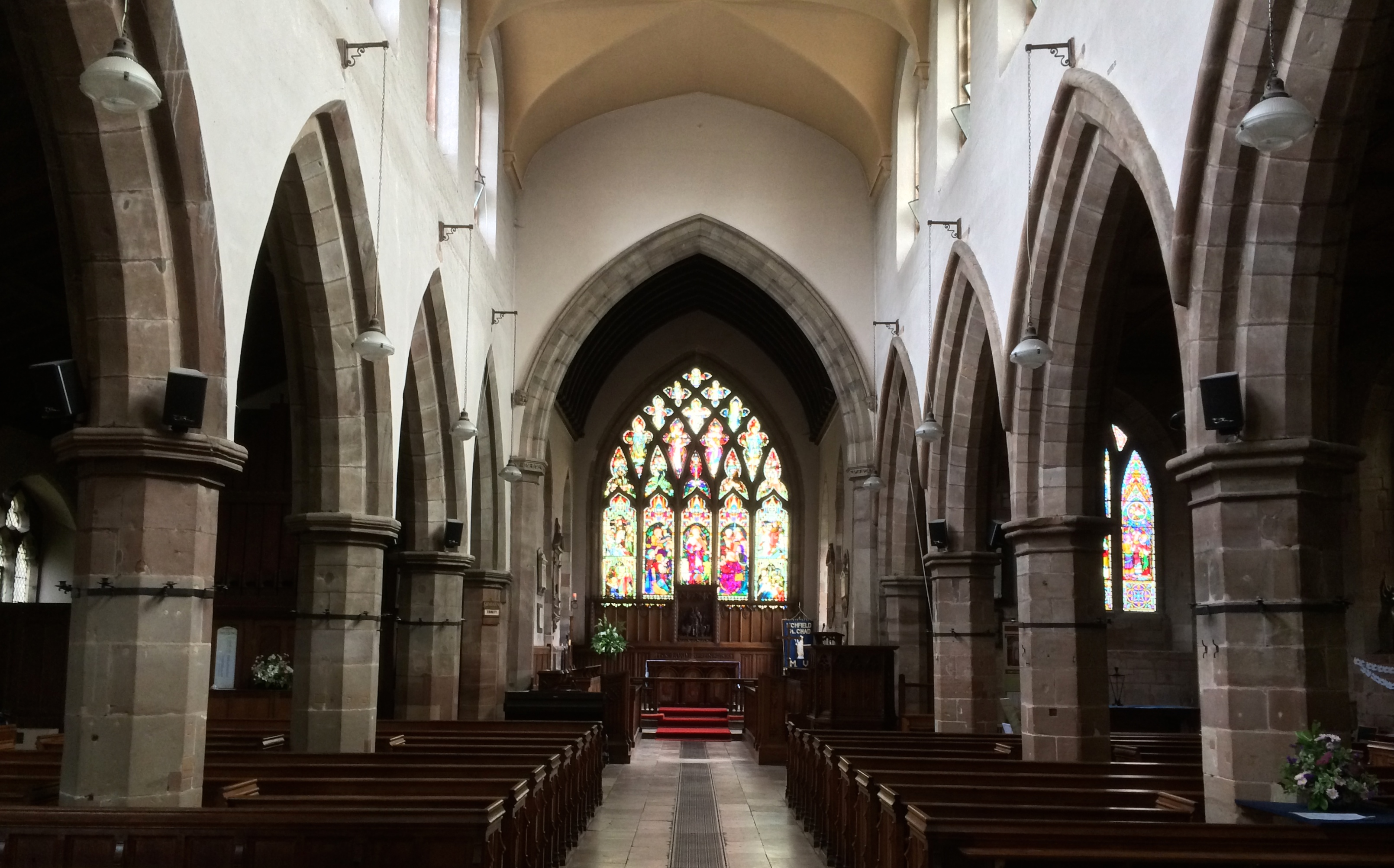 The interior of the Church of St Chad in Lichfield, UK